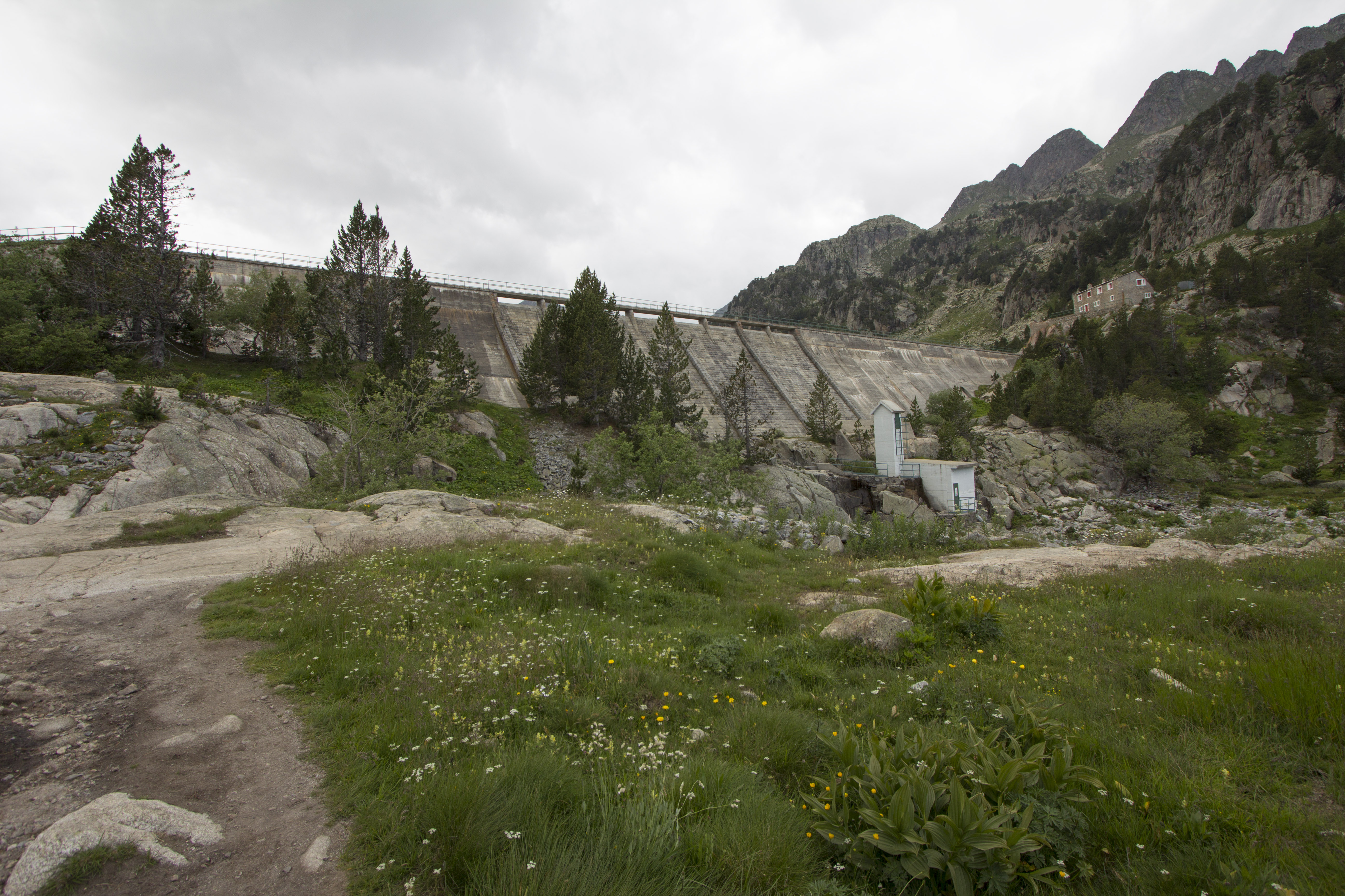 Major de Colomers dam, Arties hydroelectric power plant, in the Catalan Pyrenees